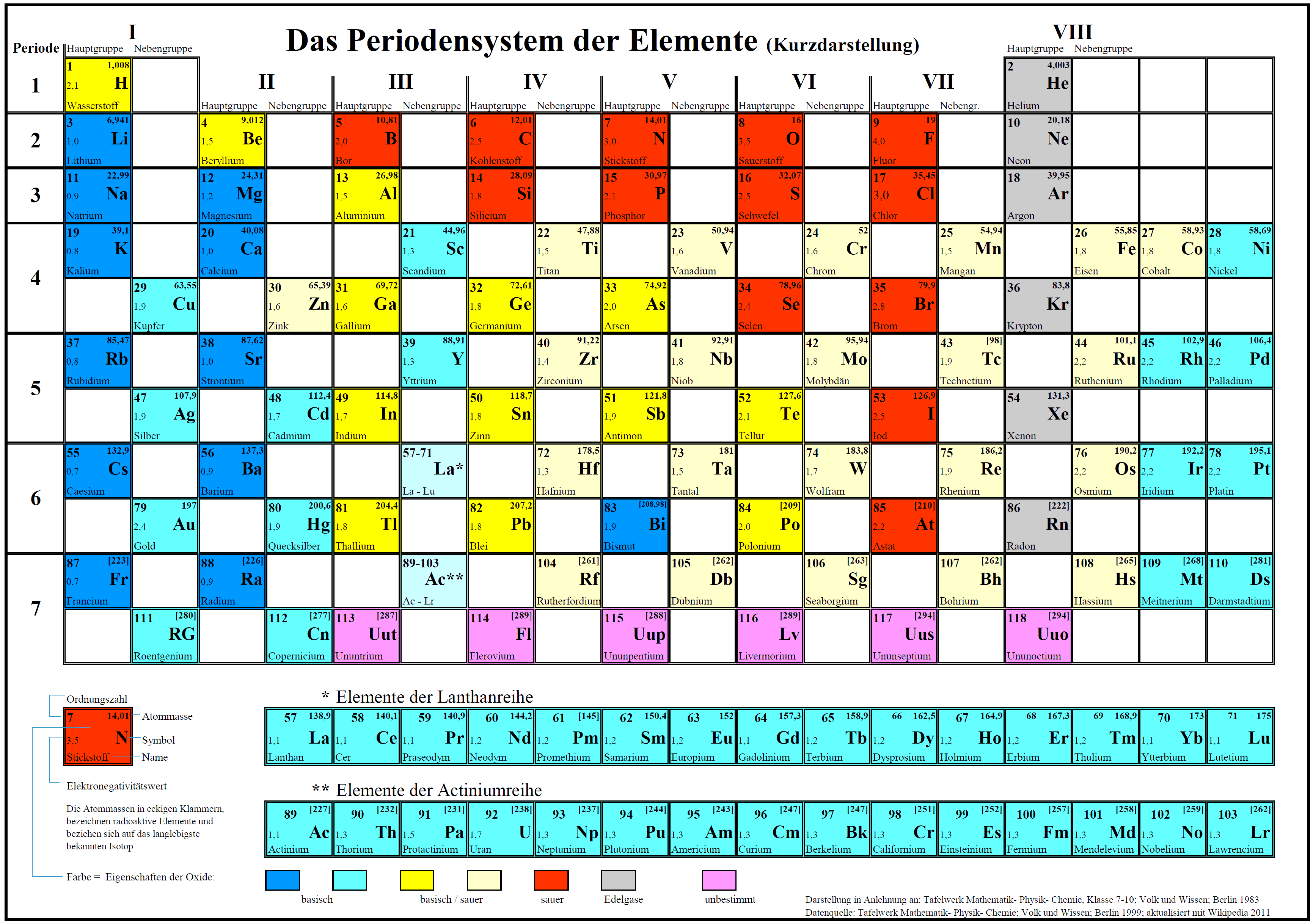 short Periodic Table